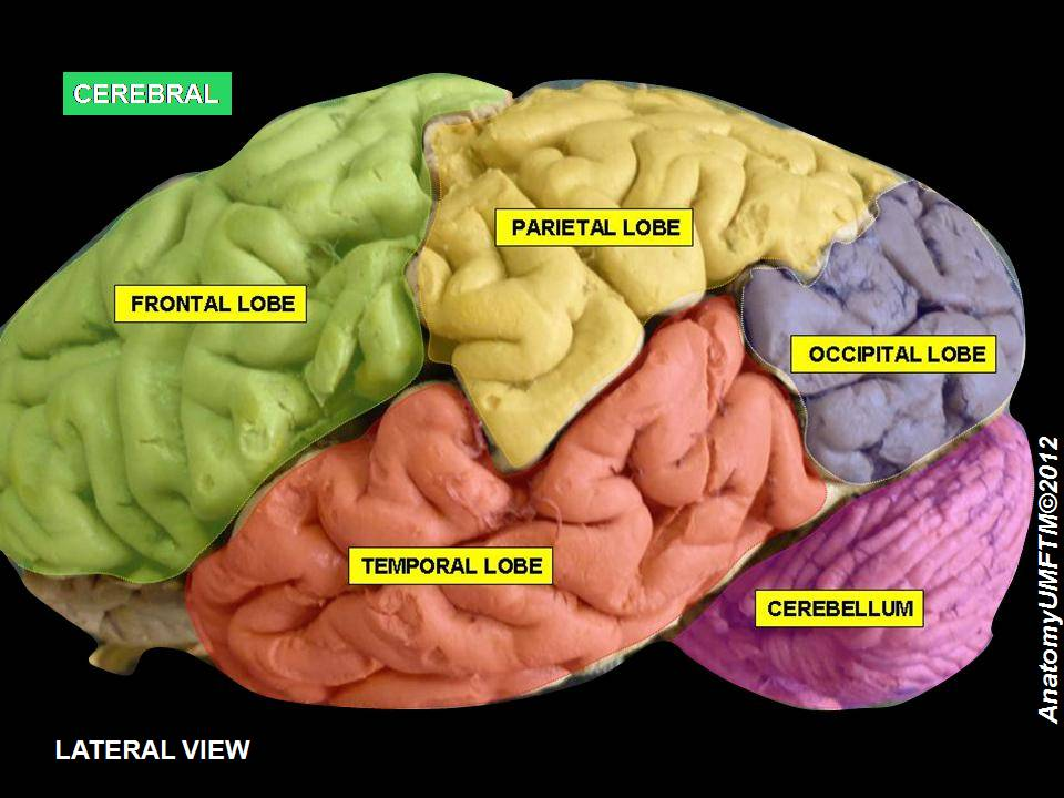 Anatomical dissection